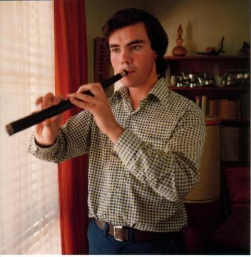 Photo taken of Steven Langley Guy by his father.